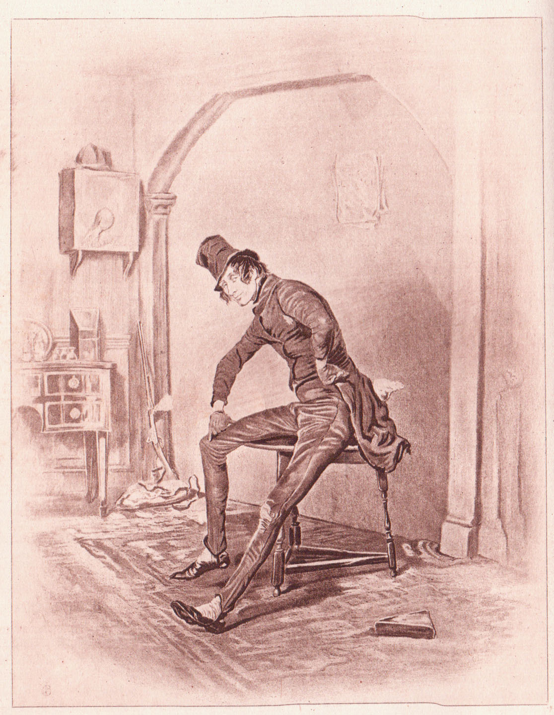 From the public domain book, "The Anniversary Edition of the Works of Charles Dickens, February 7, 1812". The books were published in 1911 by P.F. Collier &Son of New York. This copyright free illustration is from the book, "Pickwick Papers Part II.